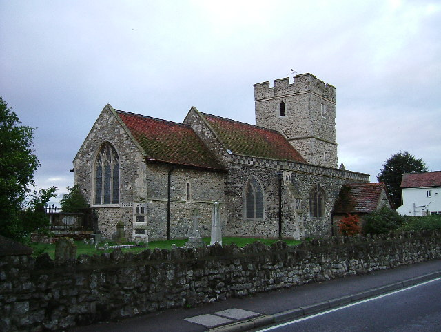 Parish church of SS Mary and Peter, Wennington, east London (formerly Essex), seen from the northeast